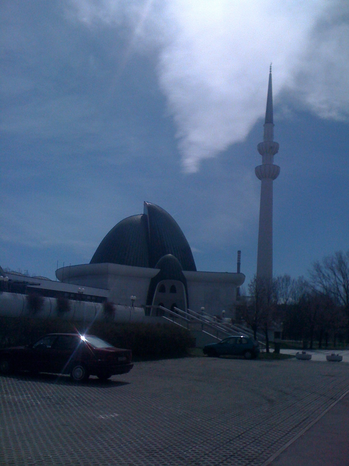 Mosque and islamic center in Zagreb